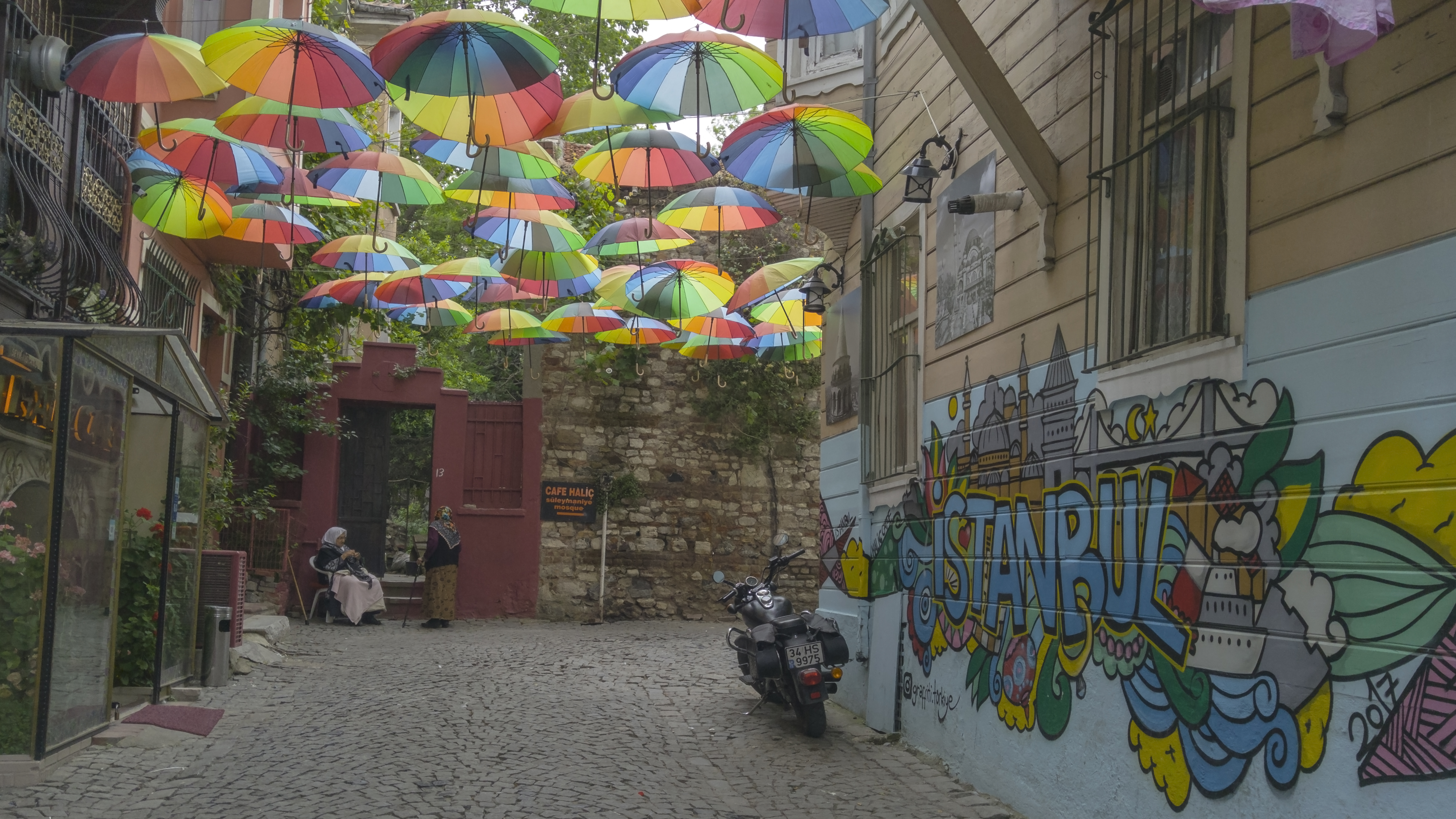 Graffiti is writing or drawings made on a wall or other surface, usually as a form of artistic expression, without permission and within public view. Graffiti ranges from simple written words to elaborate wall paintings, and has existed since ancient times, with examples dating back to ancient Egypt, ancient Greece, and the Roman Empire.